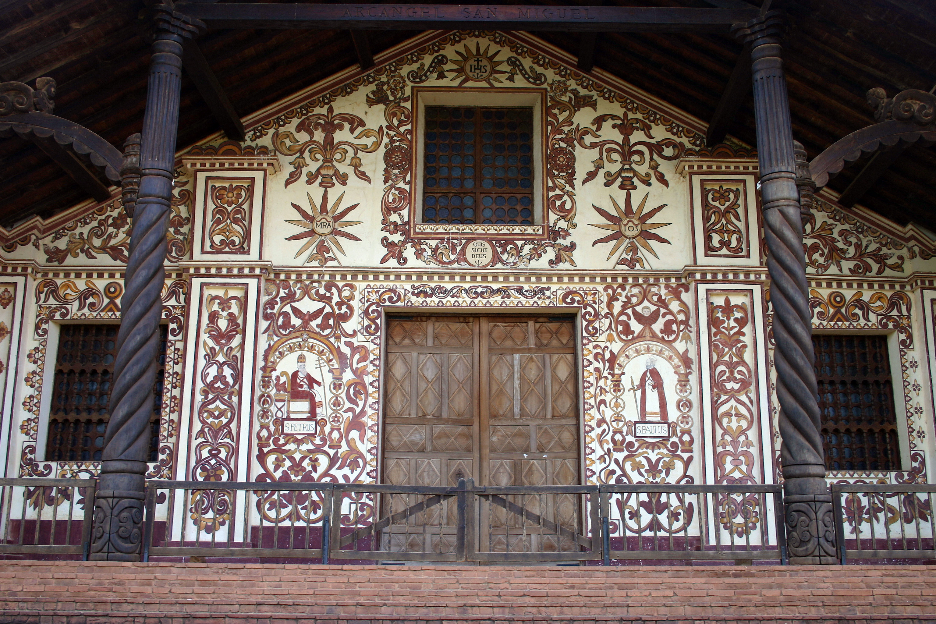 Front façade (note Jesuit monogramme), church, San Miguel de Velasco, Bolivia